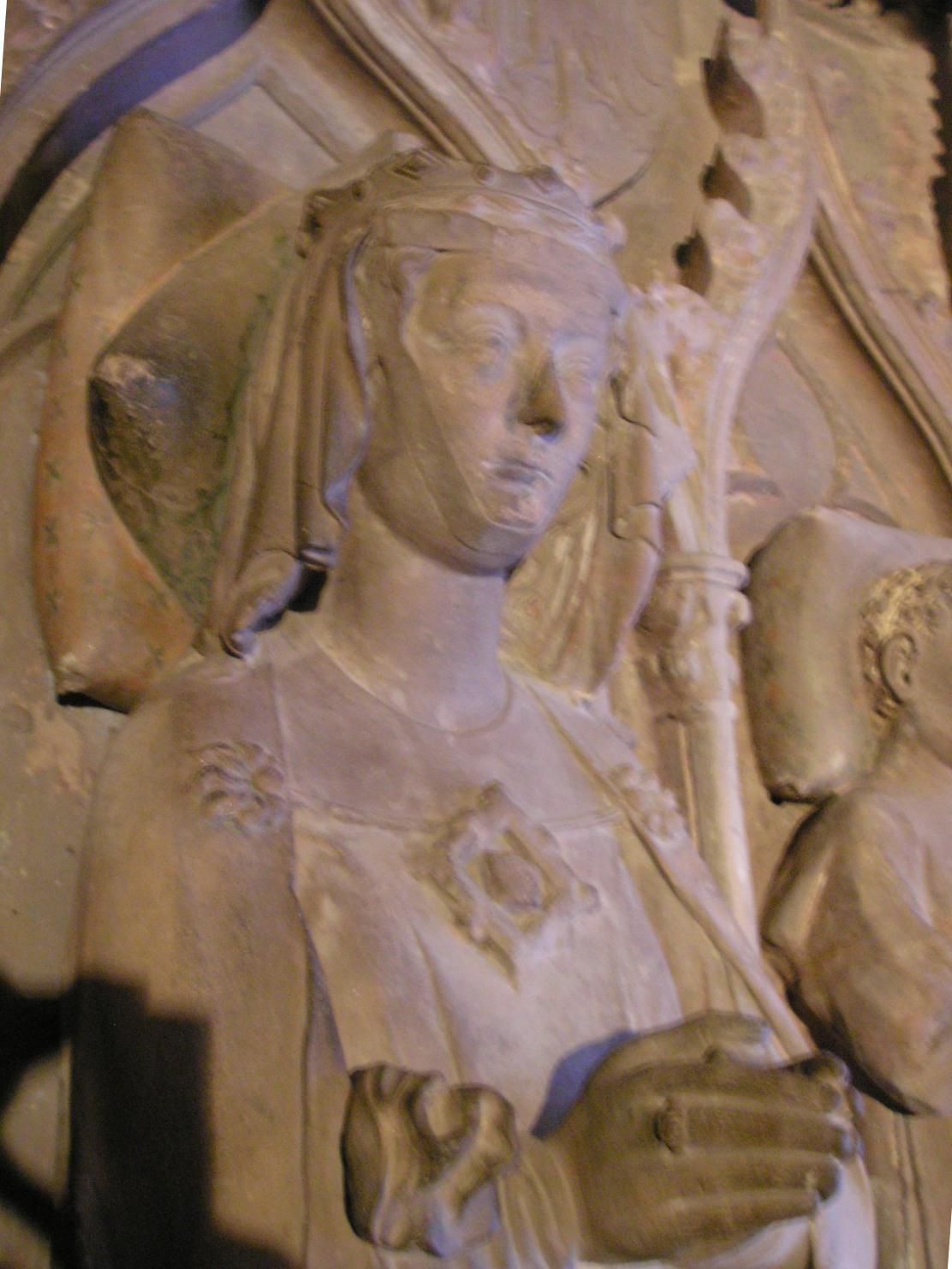 Panoramic view of Queen Gertrude of Hohenberg's tomb in the Münster of Basel.